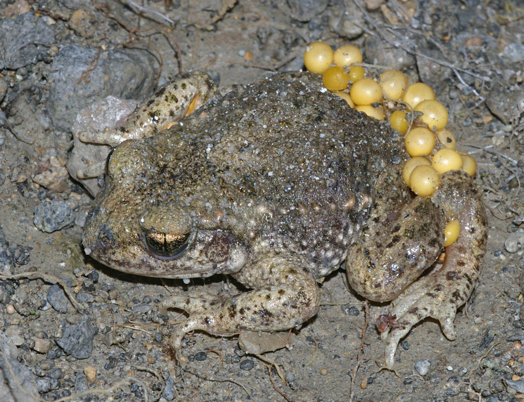 Male of the Common Midwife Toad, Alytes obstetricans, with (fresh) eggs at its hind legs.